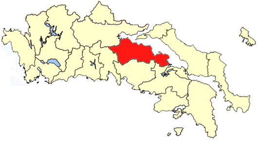 lokrida_province